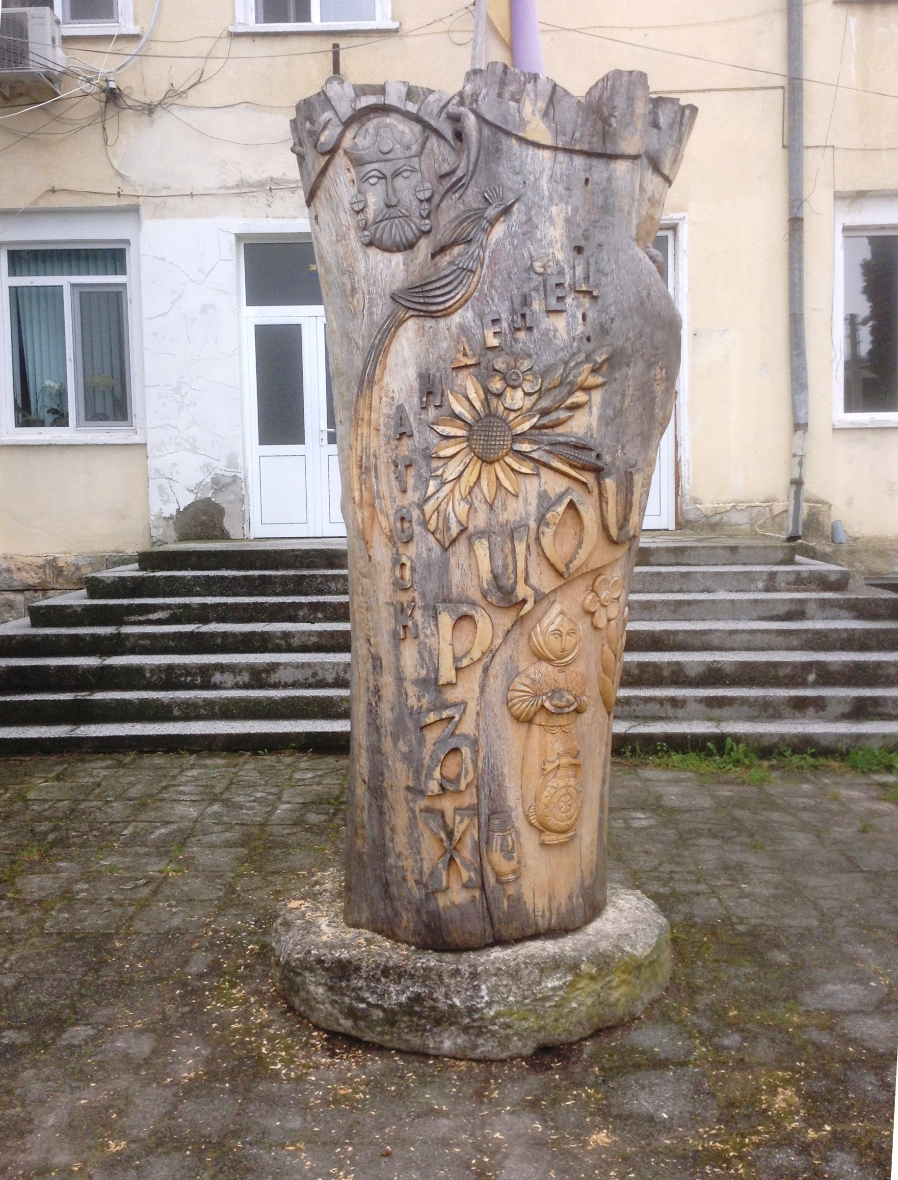 Wood carving in Kostandenetz village.